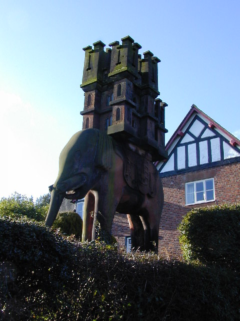 Peckforton, Cheshire, England. Elephant and Castle statue sculpted in 1859 by John watson, then working at Peckforton Castle. Believed to represent the heraldic crest of the Corbet family, lords of the manor of Peckforton.